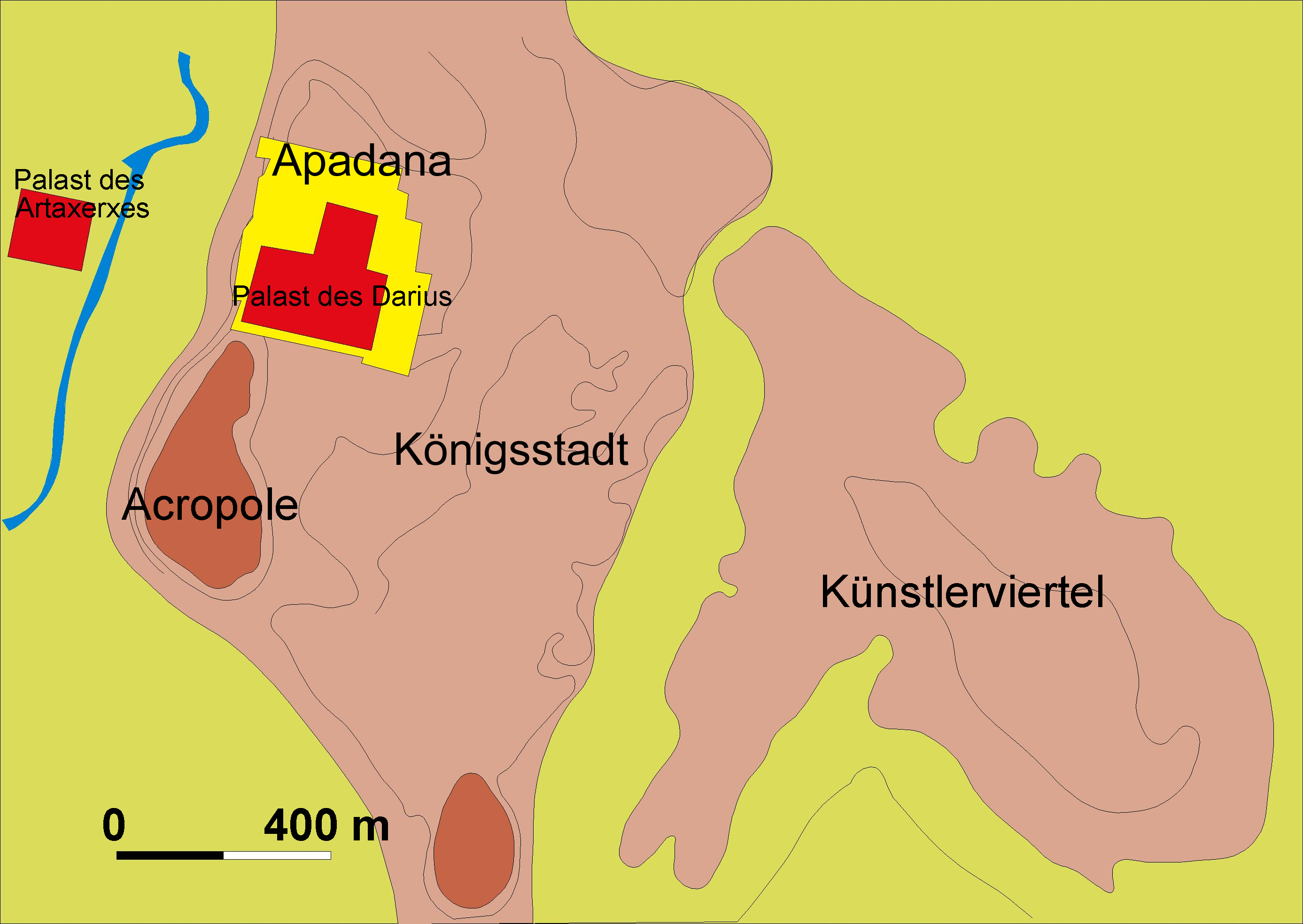 Archaeological map of ancient Susa — in present day Khuzestan province, western Iran. Indicating the Palace of Darius I in Susa site.